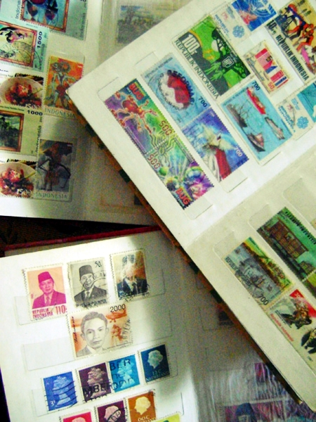 Indonesian postage stamps collecting in albums